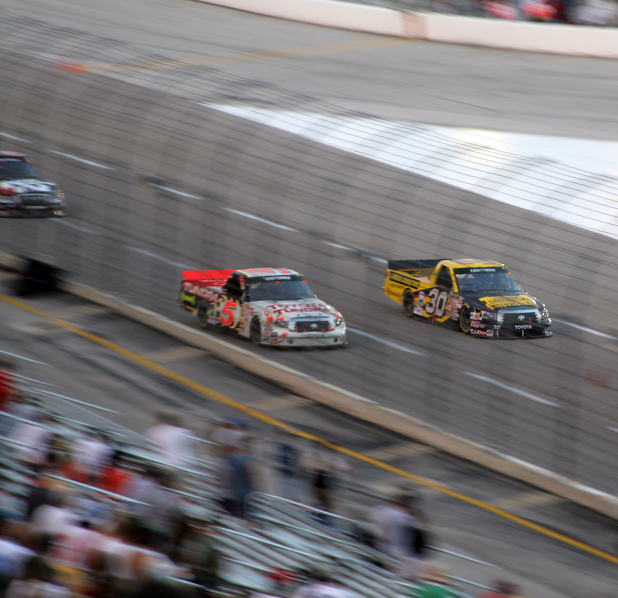 NASCAR drivers Mike Skinner (NASCAR) (#5 on left) battling Todd Bodine at the Texas Craftsman Truck Series raceDuelling Toyotas